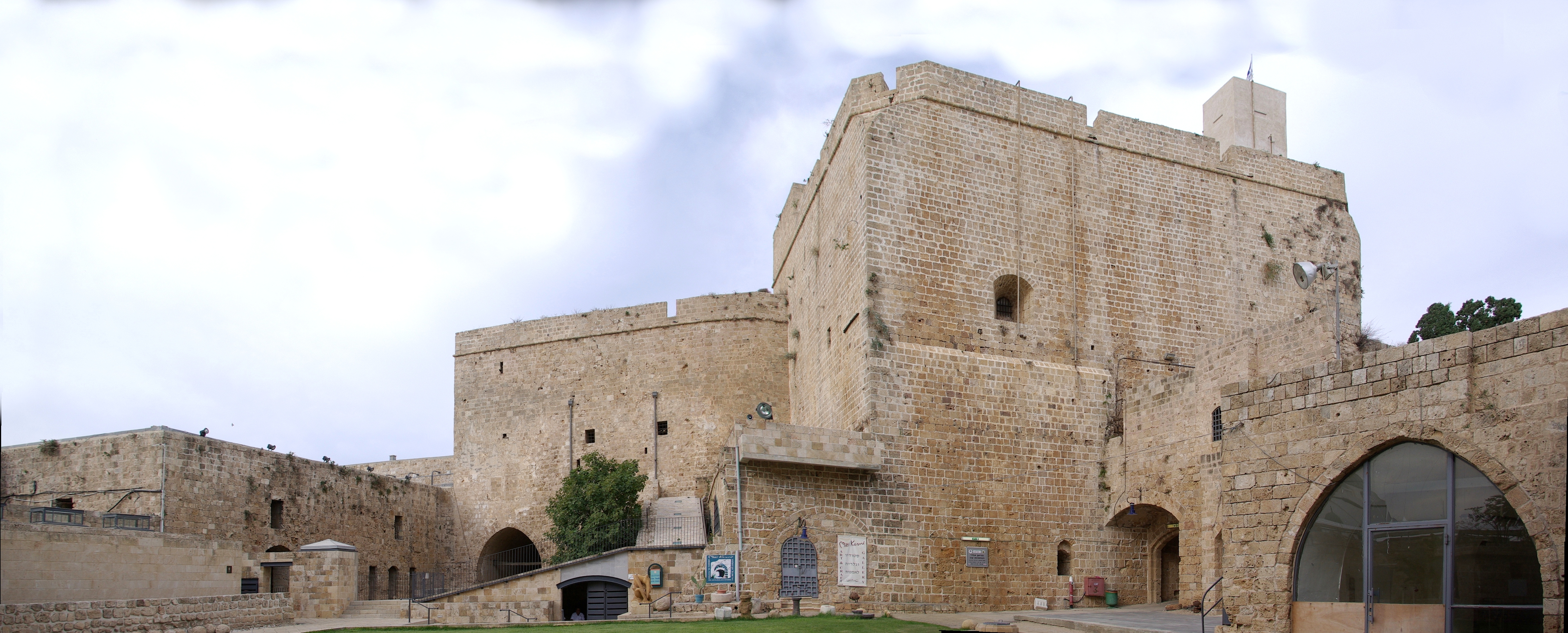 Acre, Hospitallers' citadel